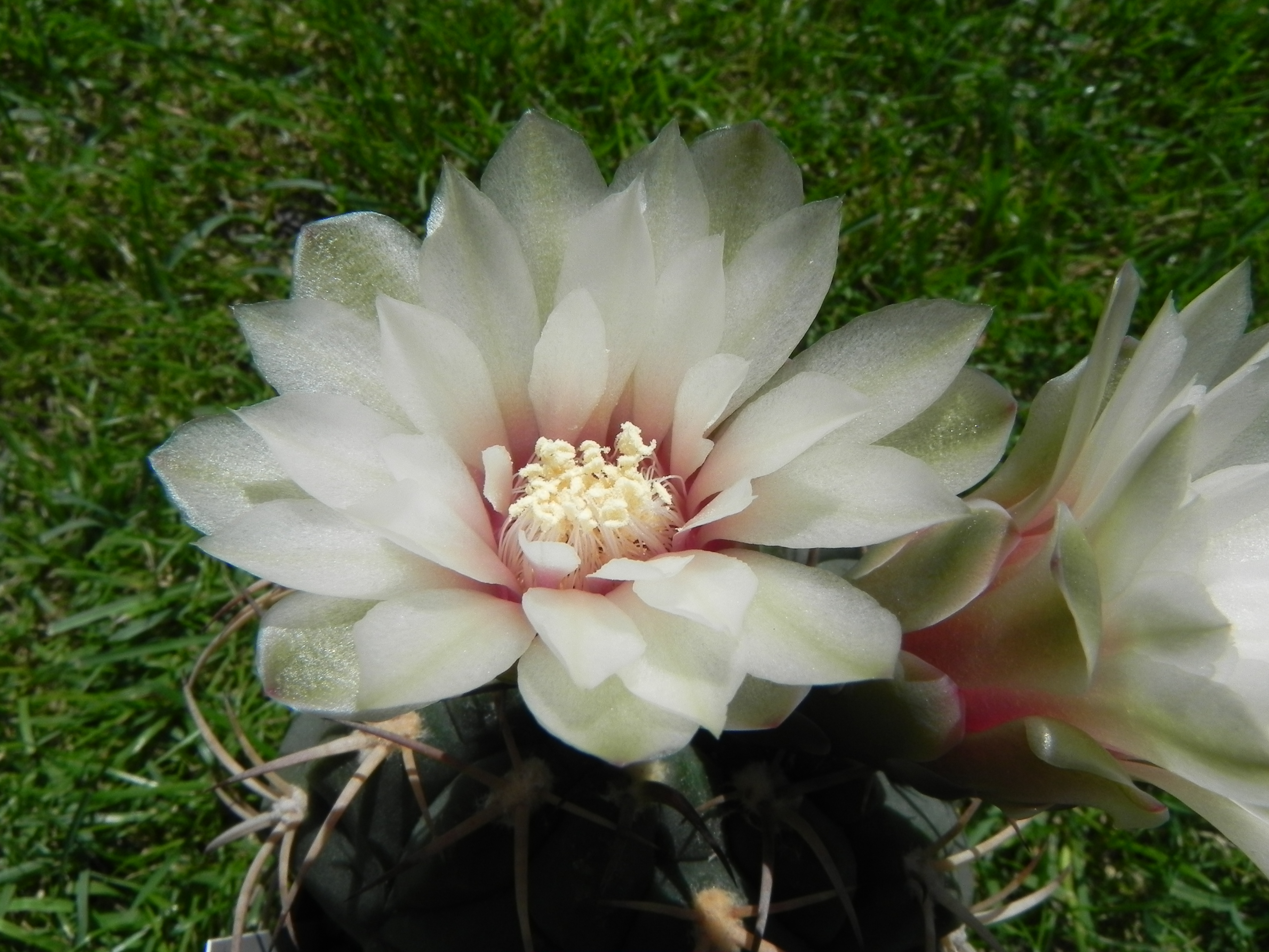 Photo of the cactus Gymnocalycium bayrianum H.Till, taken from a plant in cultur, with flowers.